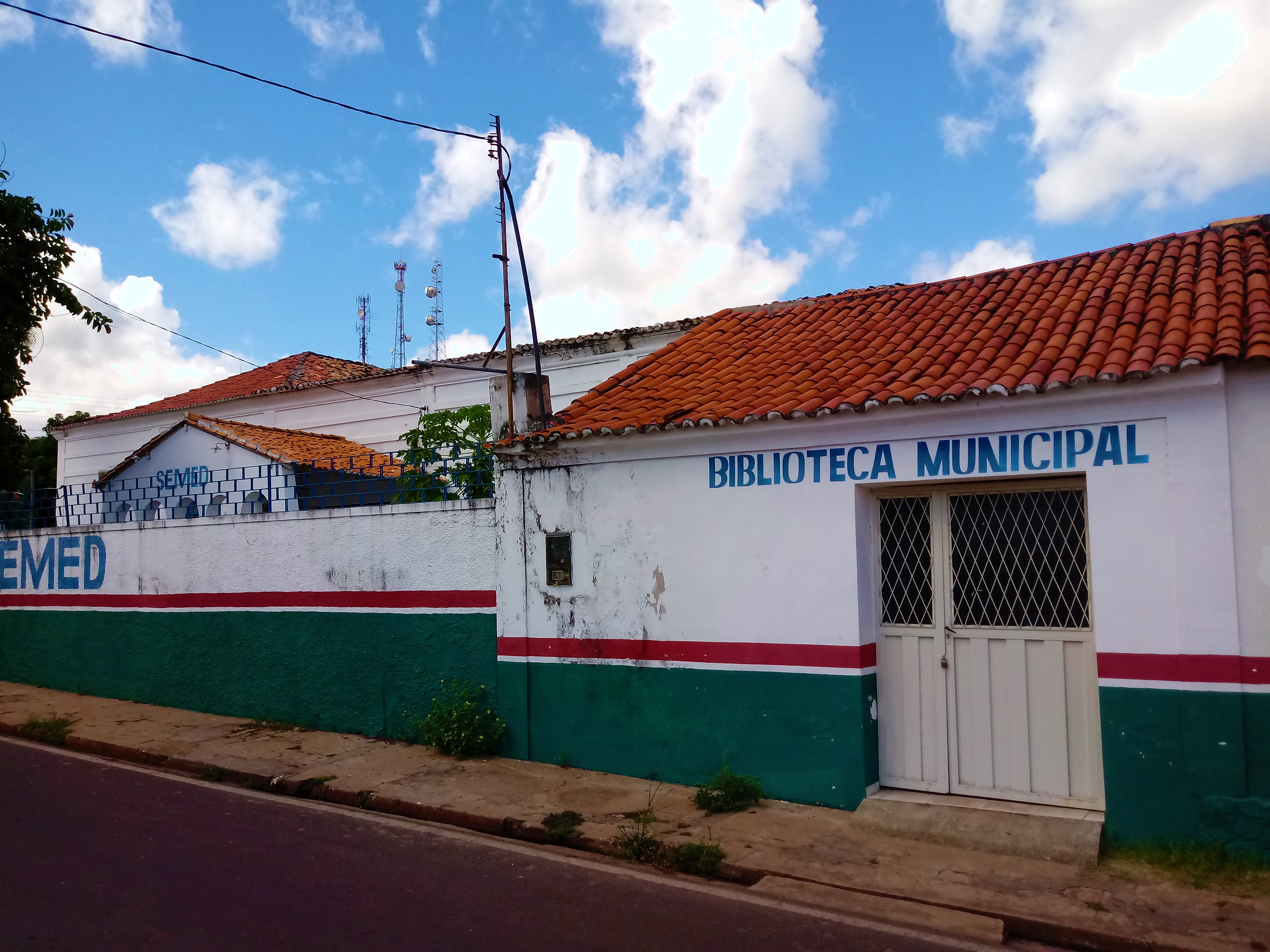 Municipal Library of José de Freitas, Piauí